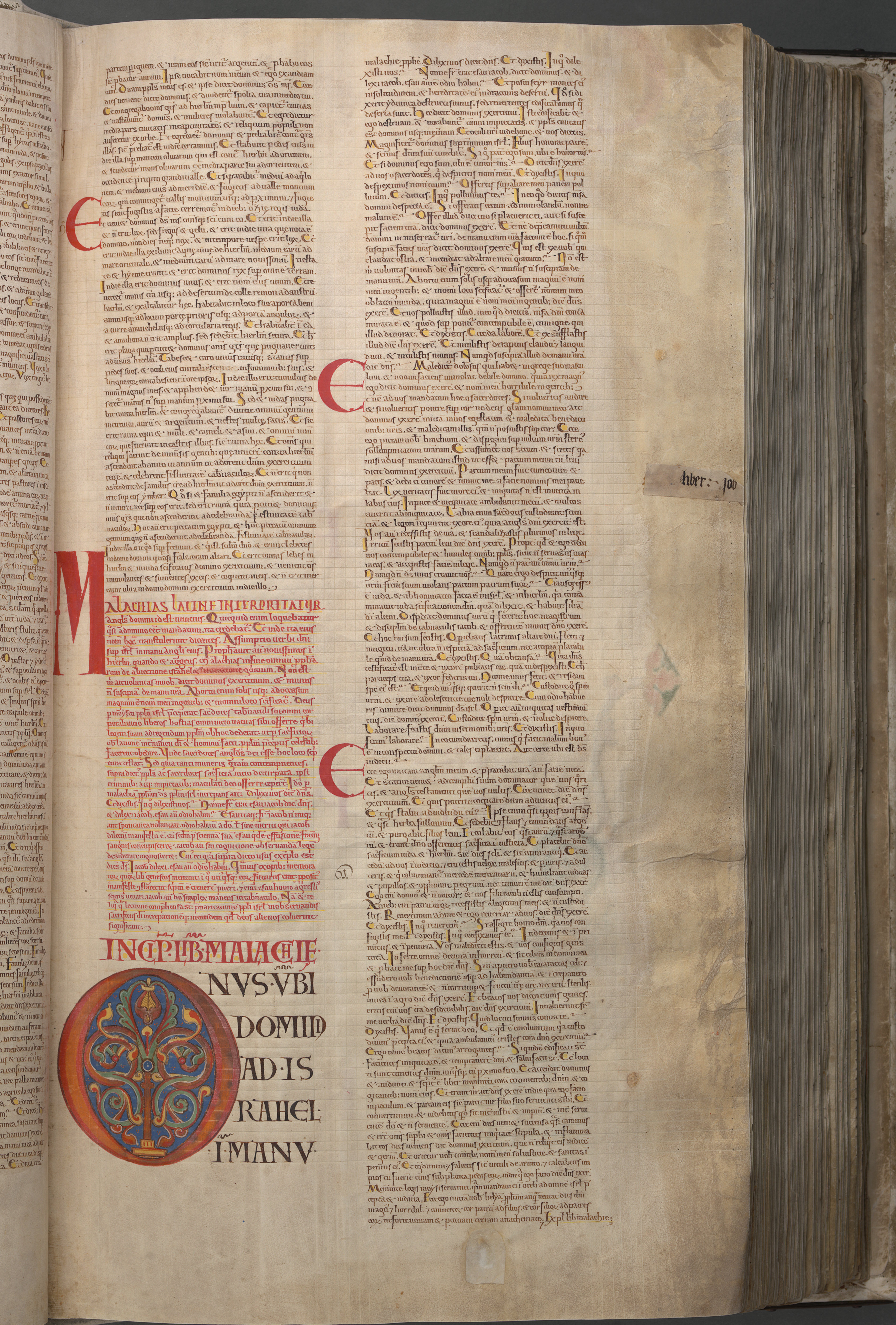 Giant Book) is the largest extant medieval manuscript in the world. It is also known as the Devil's Bible because of a large illustration of the devil on the inside and the legend surrounding its creation. It is thought to have been created in the early 13th century in the Benedictine monastery of Podlažice in Bohemia (modern Czech Republic). It contains the Vulgate Bible as well as many historical documents all written in Latin. During the Thirty Years' War in 1648, the entire collection was taken by the Swedish army as plunder, and now it is preserved at the National Library of Sweden in Stockholm, though it is not normally on display. This page contains the last part of the book of Zechariah (13:9-end) and the whole book of Malachi.